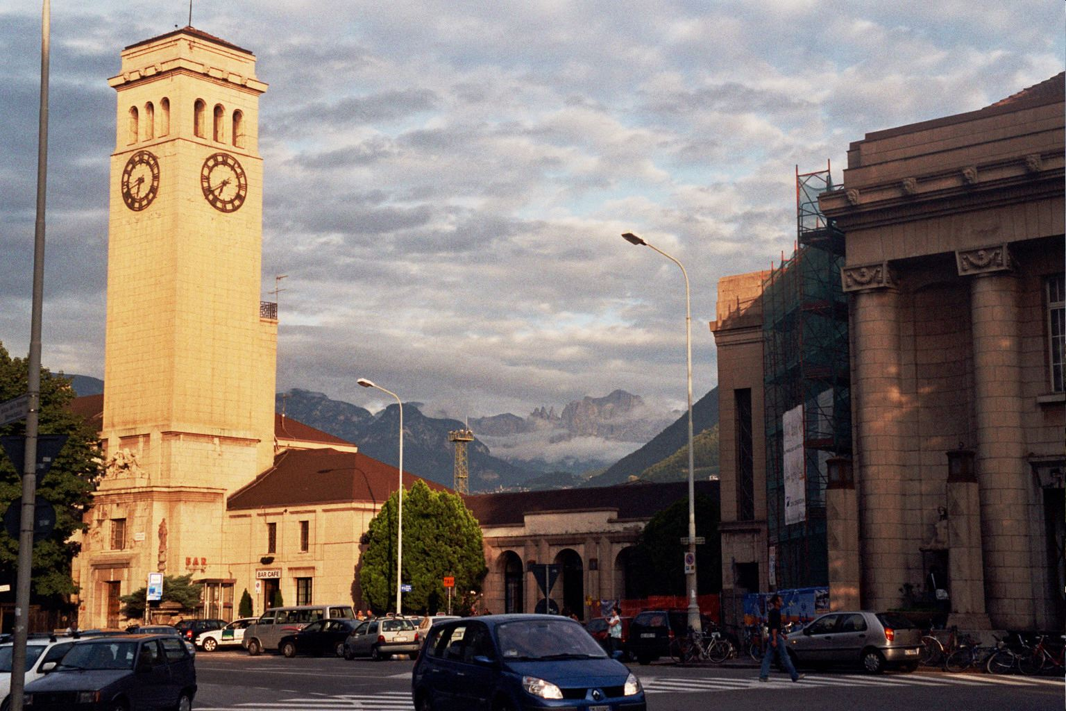 Bolzano/Bozen/Bulsan main station with Rosengarten mountains in background, evening around 19:00 hours